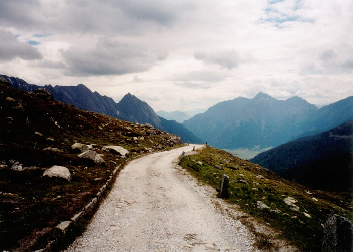 Pfitscherjoch (Passo di Vizze) picture taken by user Idéfix 1999 earlier uploaded on Dutch Wikipedia as Afbeelding:Vizze2.jpg